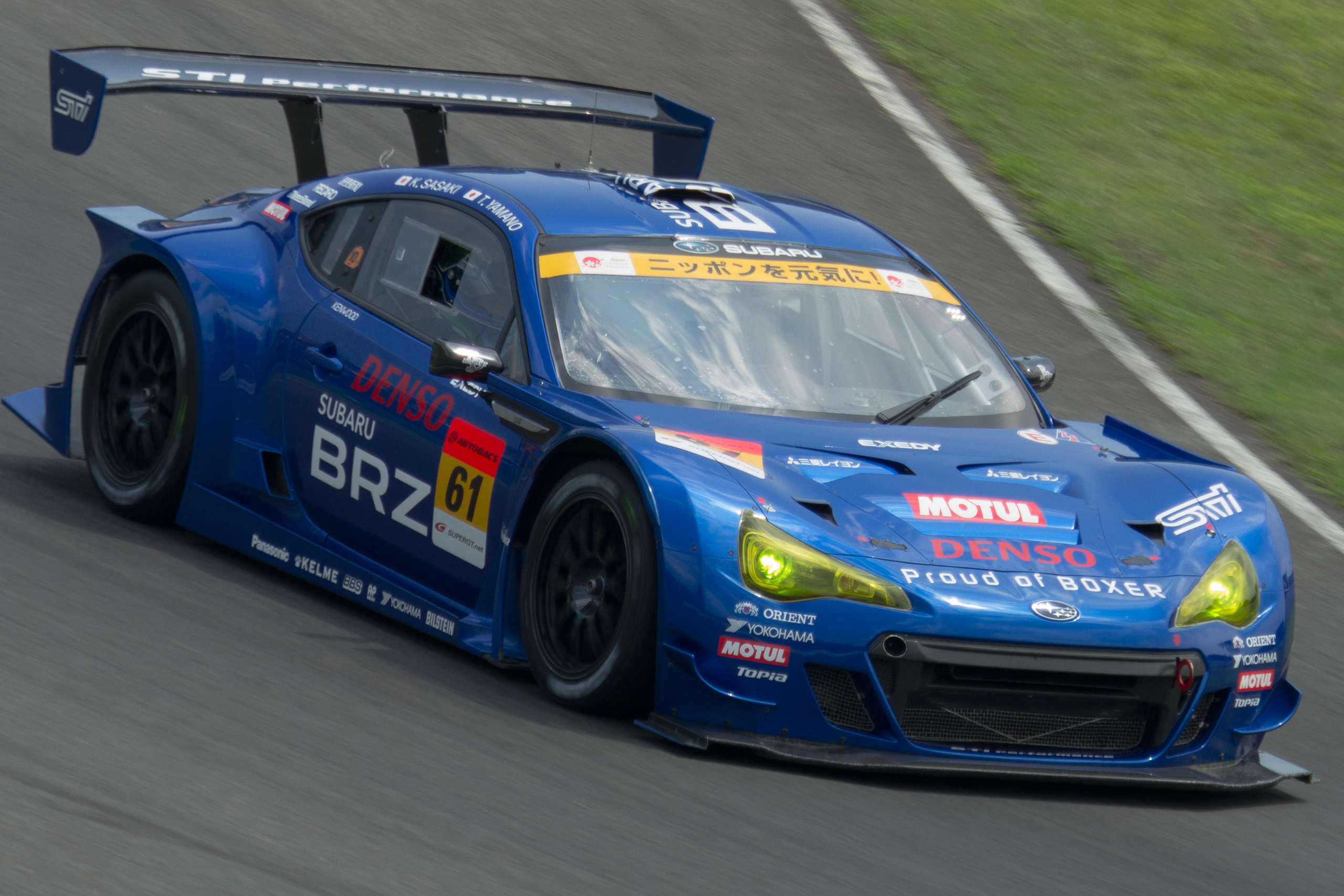 Super GT 2012 Rd.4 SUGO GT 300km: Kota Sasaki (R&D Sport) driving the Subaru BRZ GT300.